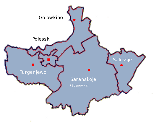 The administrational division of the Polessky District in German transcription